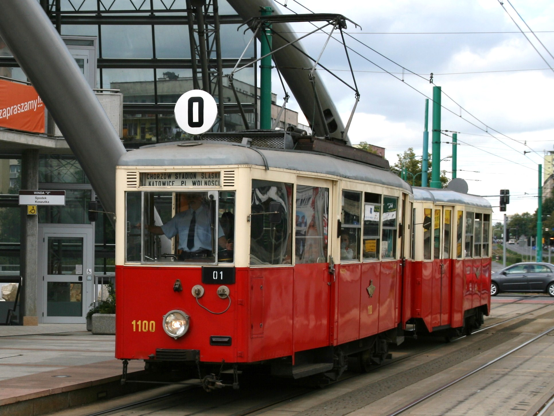 Konstal N tram (#1100) number 0 in Katowice, Poland.